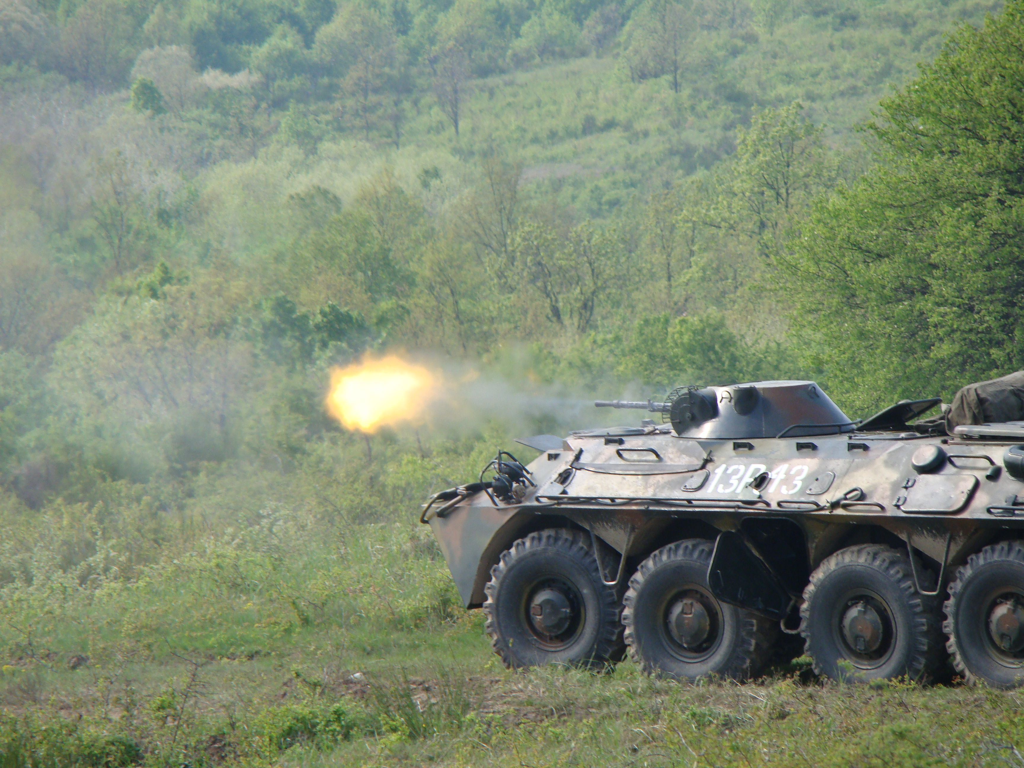 A Romanian TAB-77 firing during a military exercise of the 191st Infantry Battalion.